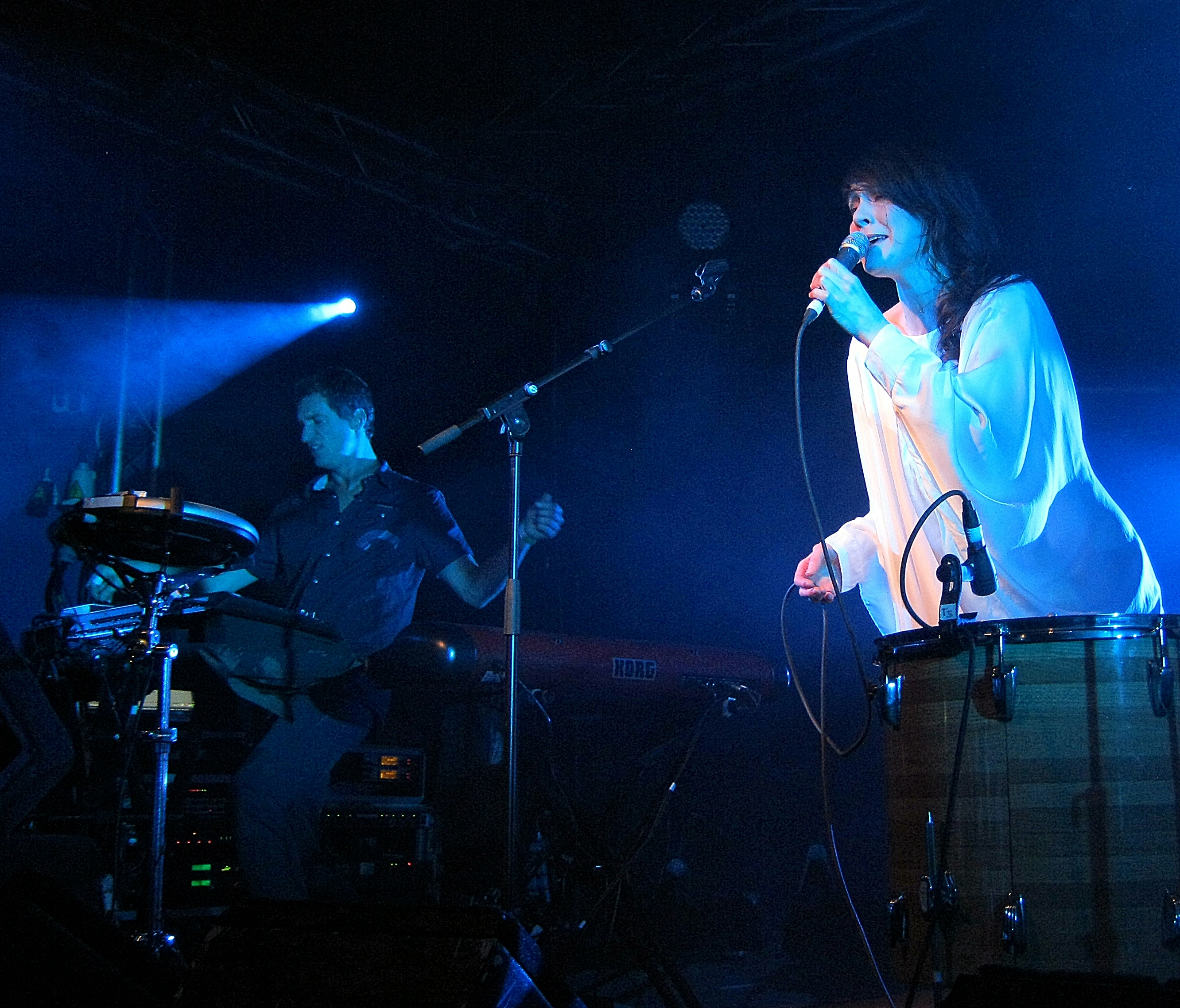 Lamb in concert, 2012